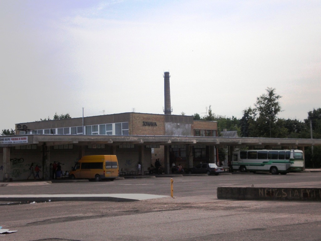 The bus station of Jonava